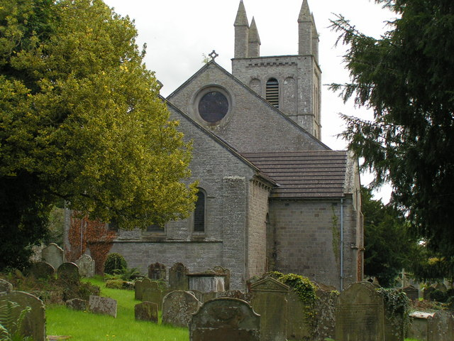 St Peters church, Glasbury